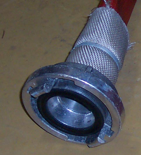 Storz-coupling on a 75mm firehose